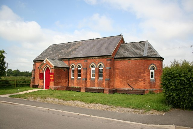 Wainfleet St.Mary Community Hall On St.Michael's Lane at Key's Toft